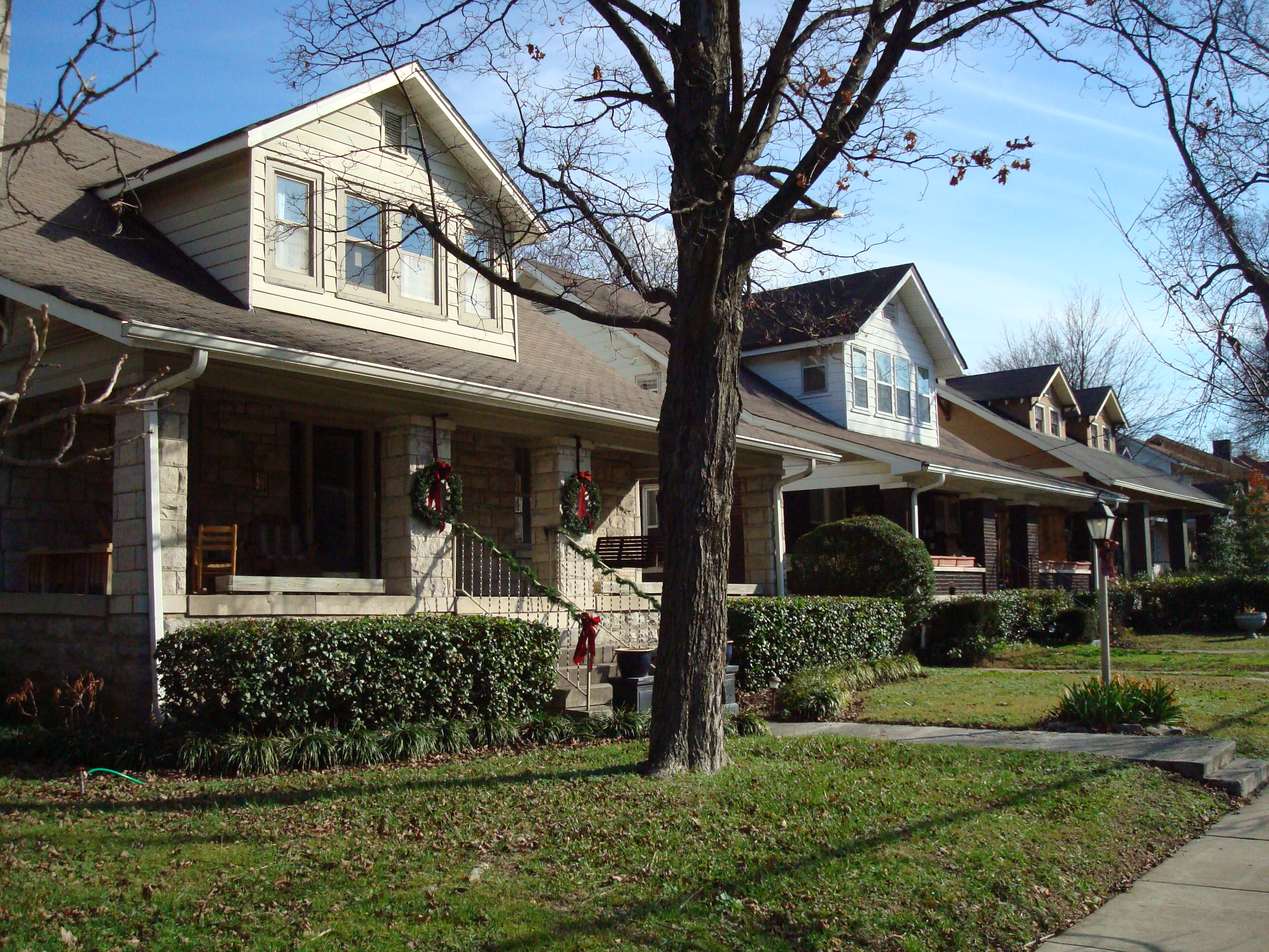 Bangalod Belmont-Hillsboro naabruskonnas Nashvilles, Tennessees, USA